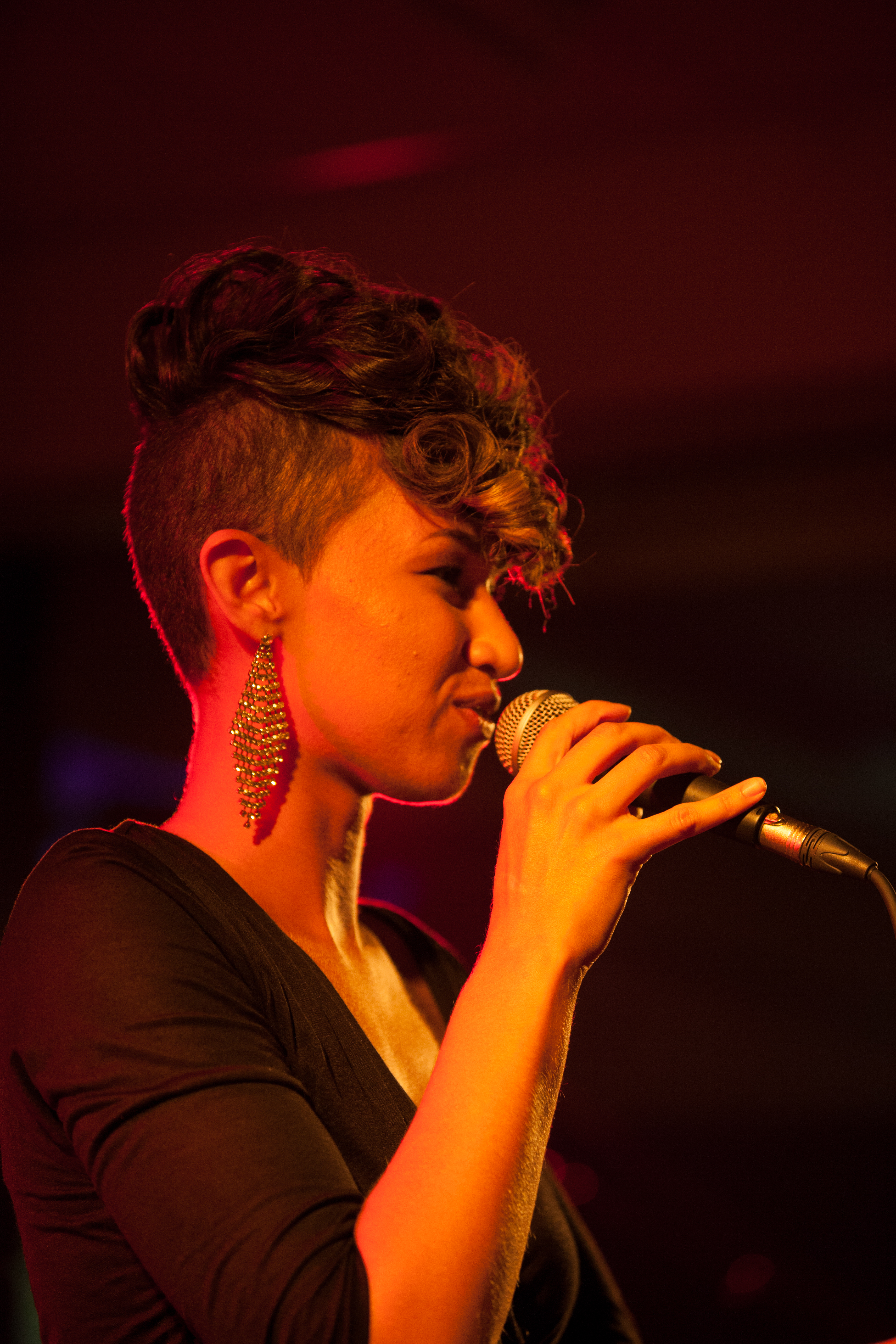 Antoinette Clinton (born September 29, 1985), known by her stage name Butterscotch, is an American beatboxer/singer/pianist.